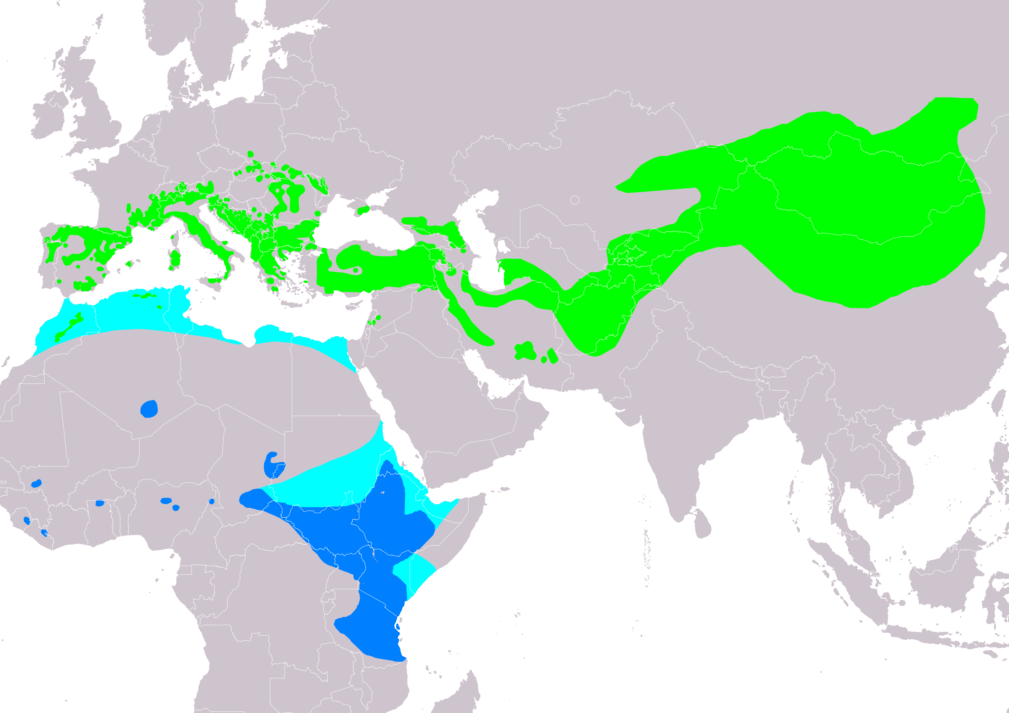 Tthe distribution map of common rock thrush (Monticola saxatilis) according to IUCN version 2019.1 ; key: Legend: Extant, breeding (#00FF00), Extant, passage (#00FFFF), Extant, non-breeding (#007FFF)